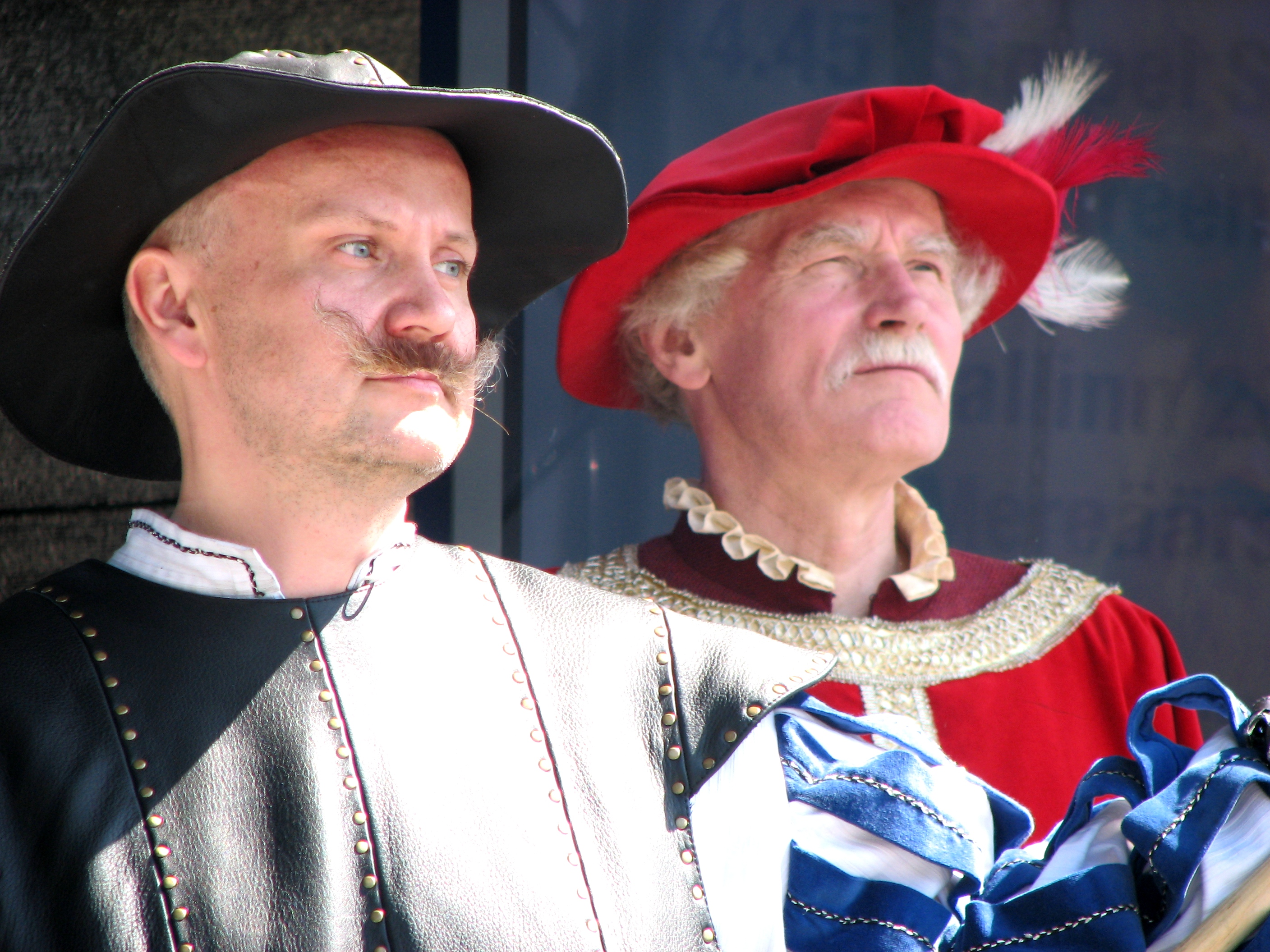 Tarvo Krall (left) and Jüri Kuuskemaa (right) performing in Tallinn's day